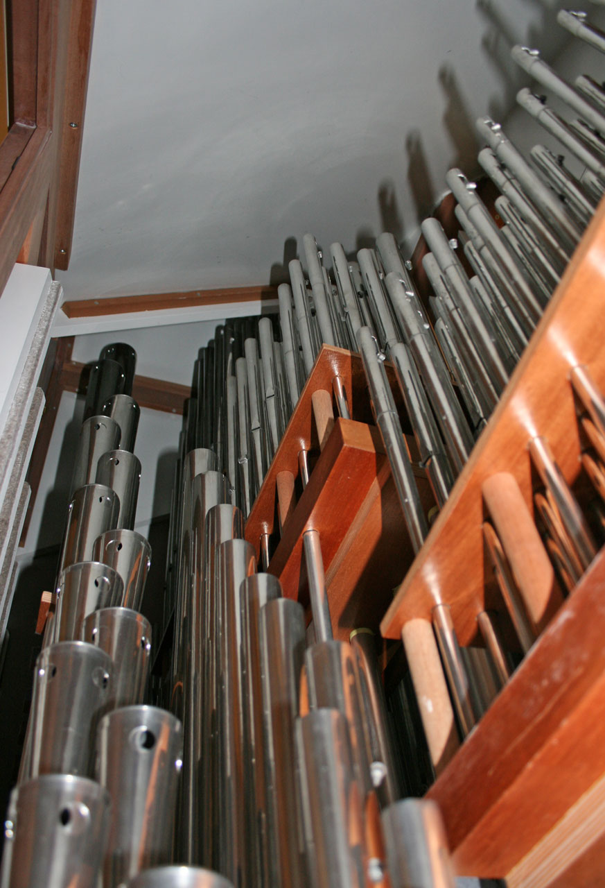 Organ pipes inside the Swell Organ of the pipe organ in Jørlunde church. Organ builders: Frobenius (2009).